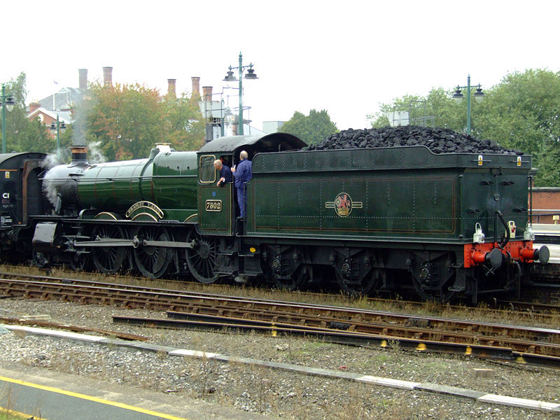 Bradley Manor at Shrewsbury on the 'Cambrian Coast Express'